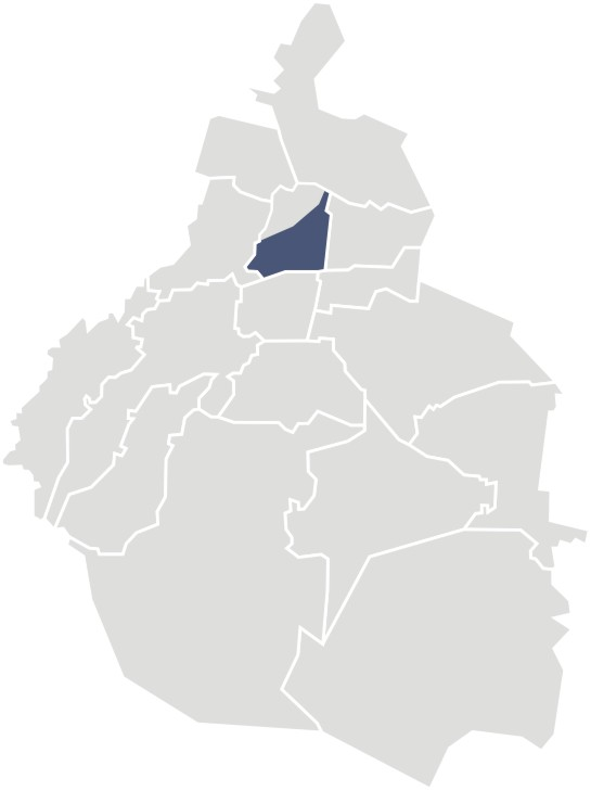 Map of the Twelveth Federal Electoral District of the Federal District, México.